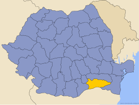 Location of Călărași County in Romania.